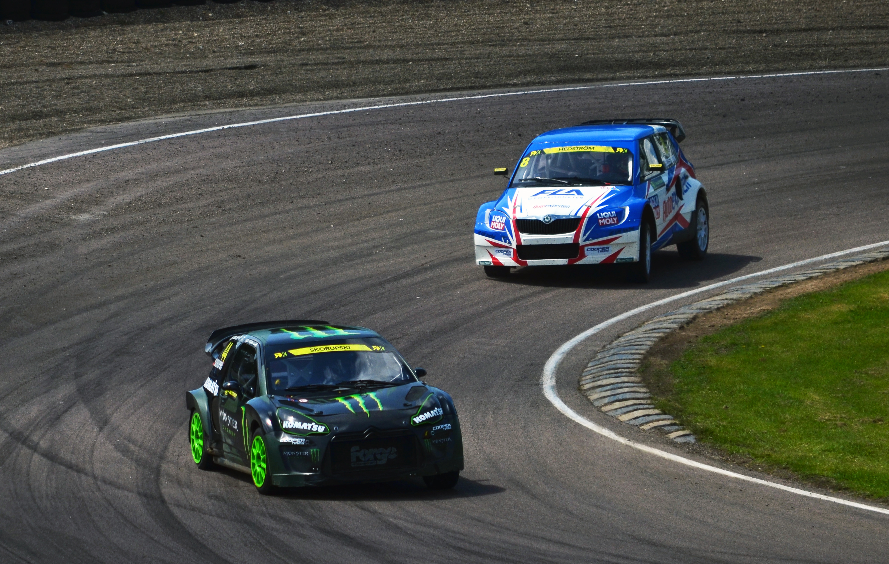 Krzysztof Skorupski leads Peter Hedström through Devil's Elbow at Lydden Hill during a heat race of round 2 of the 2014 FIA World Rallycross Championship.